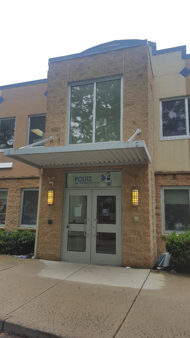 Politz Day School in Cherry Hill, New Jersey on May 31, 2018 photographed by Morris Levin